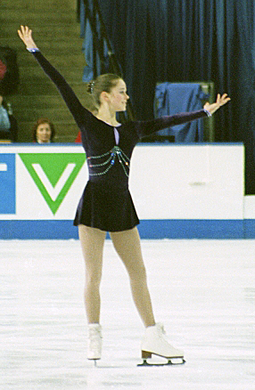 Nicole Watt competes her long program at the 2002 Canadian Championships in Hamilton, Ontario.